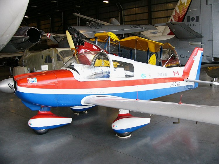 I took this photo of Zenair CH-300 Tri Zenith C-GOVK at the Canada Aviation Museum on 09 Oct 2006